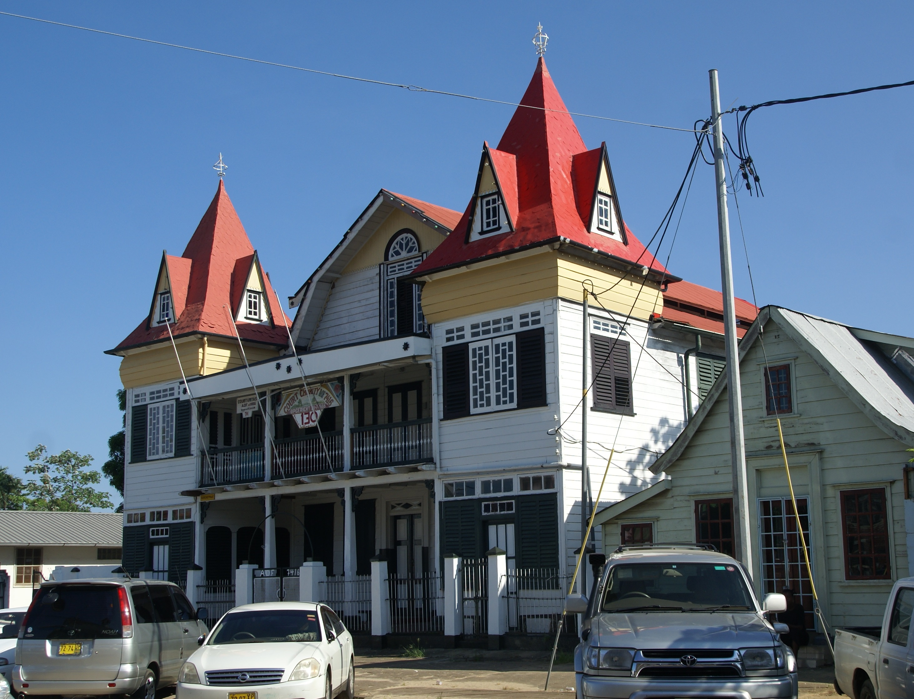 Burenstraat 26, Paramaribo, Surinam. Court Charity.